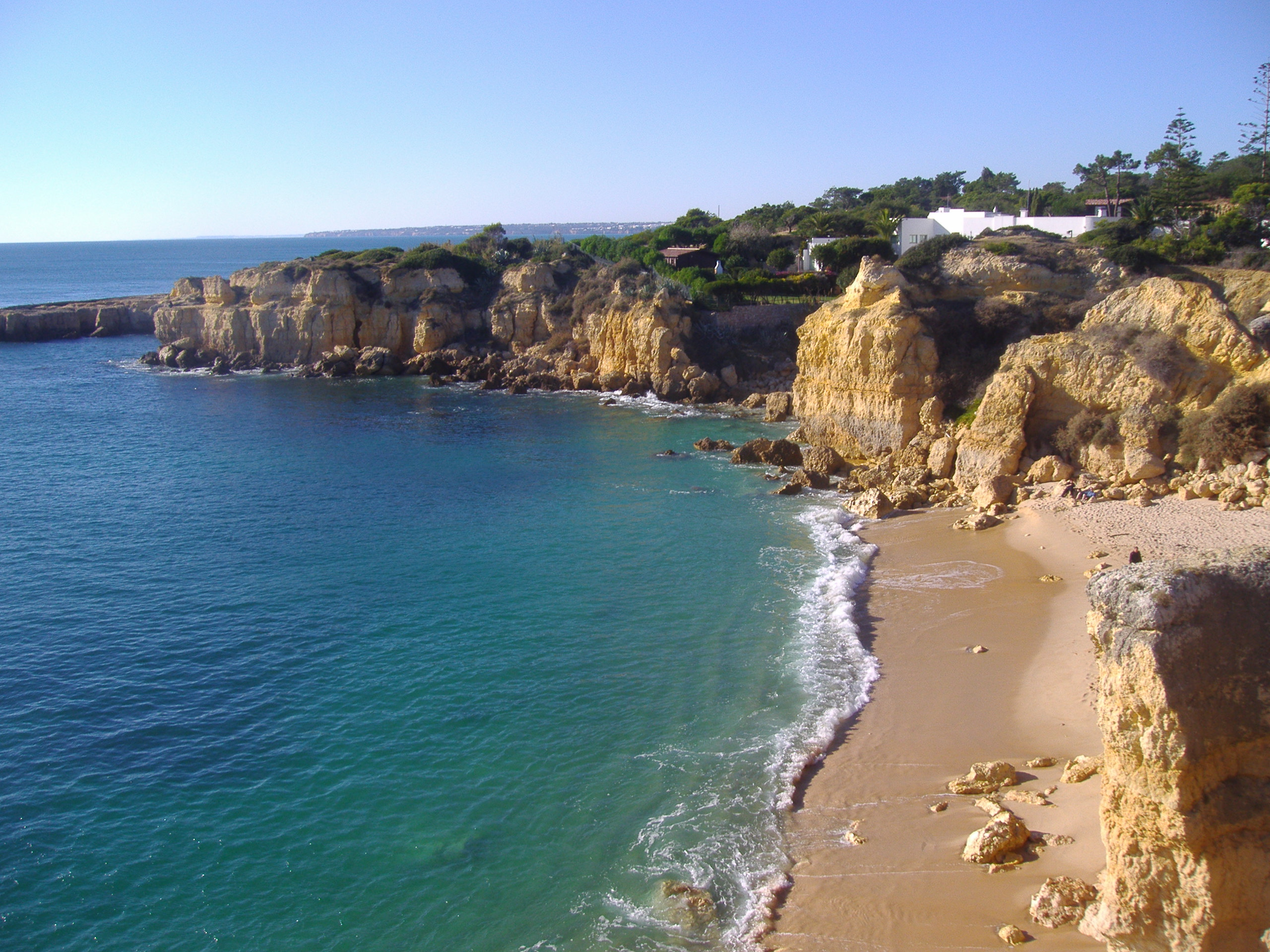 The view west from the cliff tops looking along the coast across the sands on the Praia do Castelo, Sesmarias village near Albufeira, Algarve, Portugal